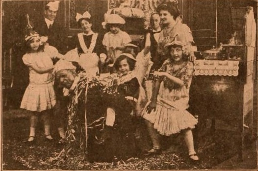 A film still of Their Child, by the Thanhouser Company. Released in 1910.